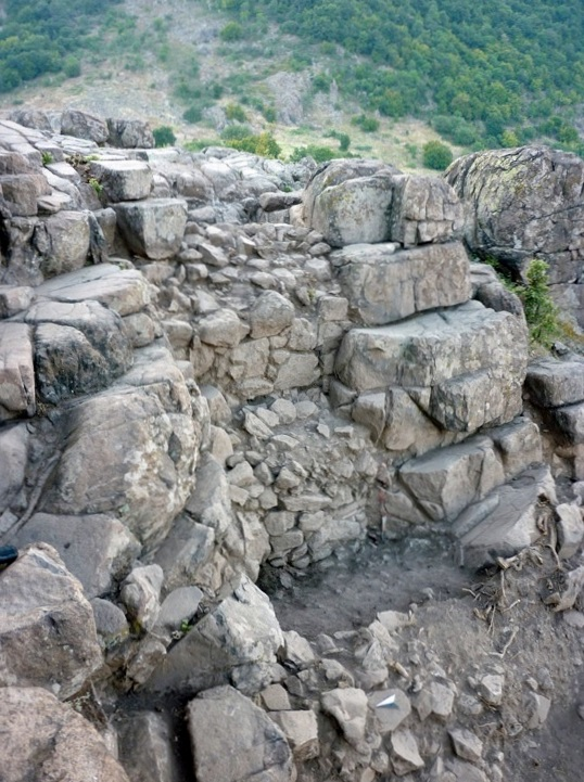 Dragoyna_Parvomaj_fortress_BG_02